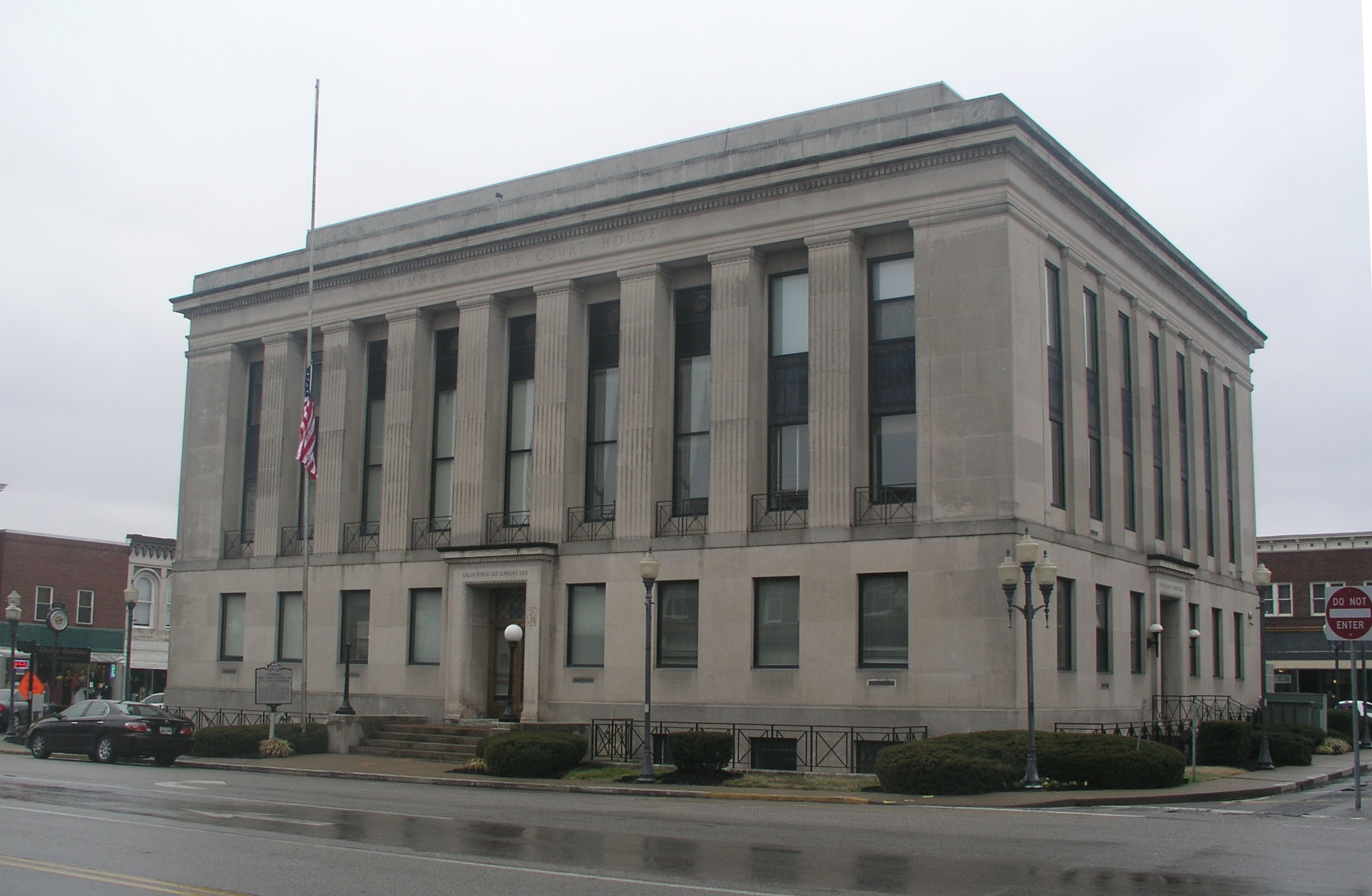 Sumner County Courthouse in Gallatin, Tennessee, USA